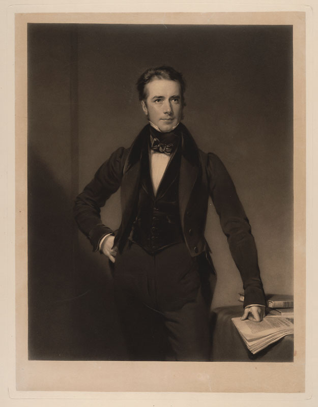 A mezzotint of Sir William Webb Follett (2 December 1796 – 28 June 1845), an English lawyer and politician who served as a Member of Parliament for Exeter (1835–1845). He served twice as Solicitor General in 1834–1835 and 1841, and as Attorney General for England and Wales in 1844.